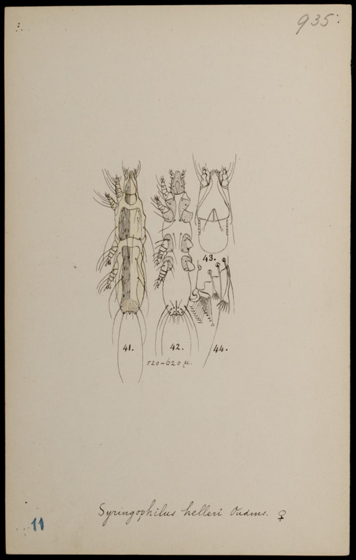 Syringophilus helleri (Oudemans)